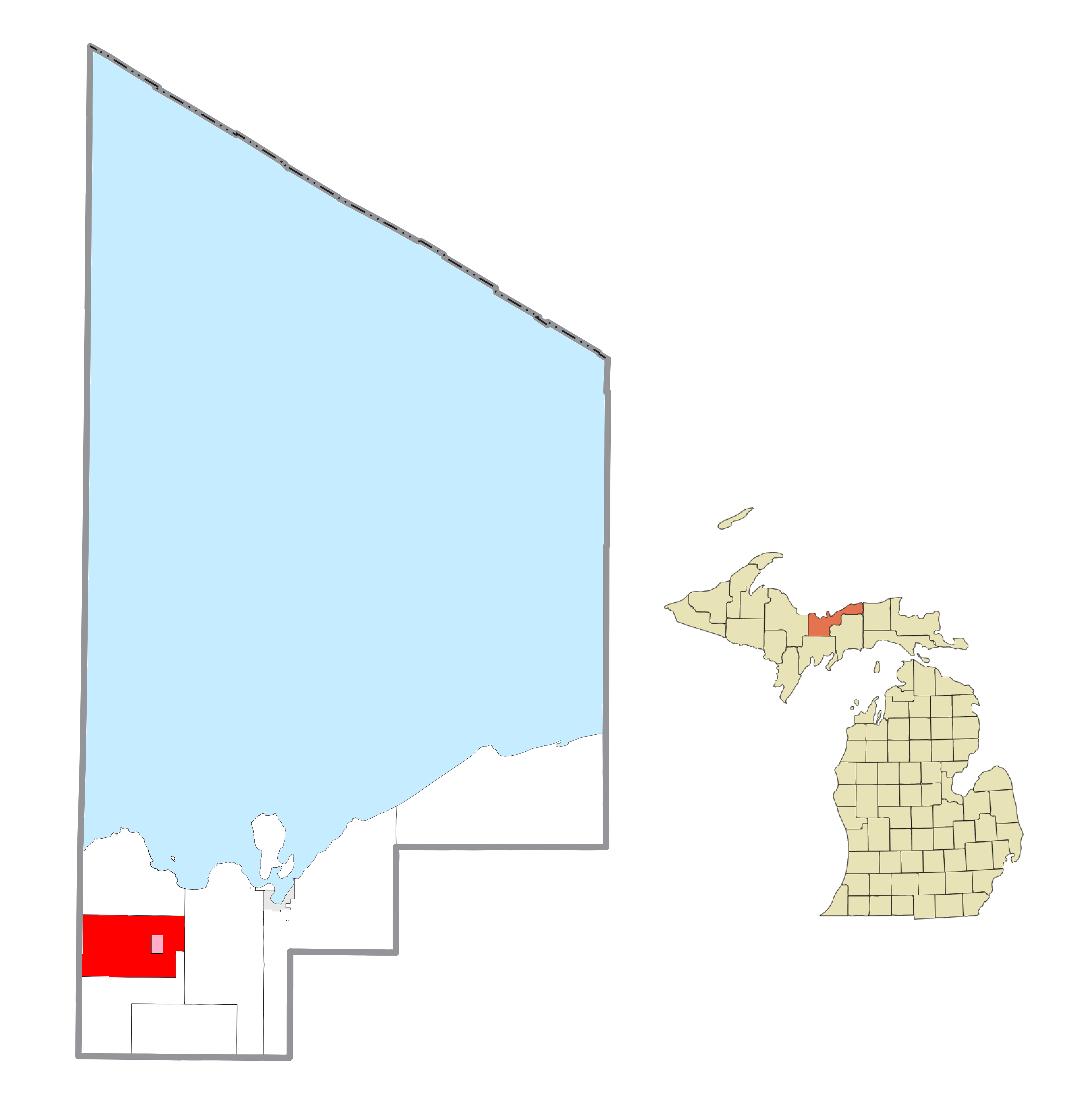 Rock River Township, MI